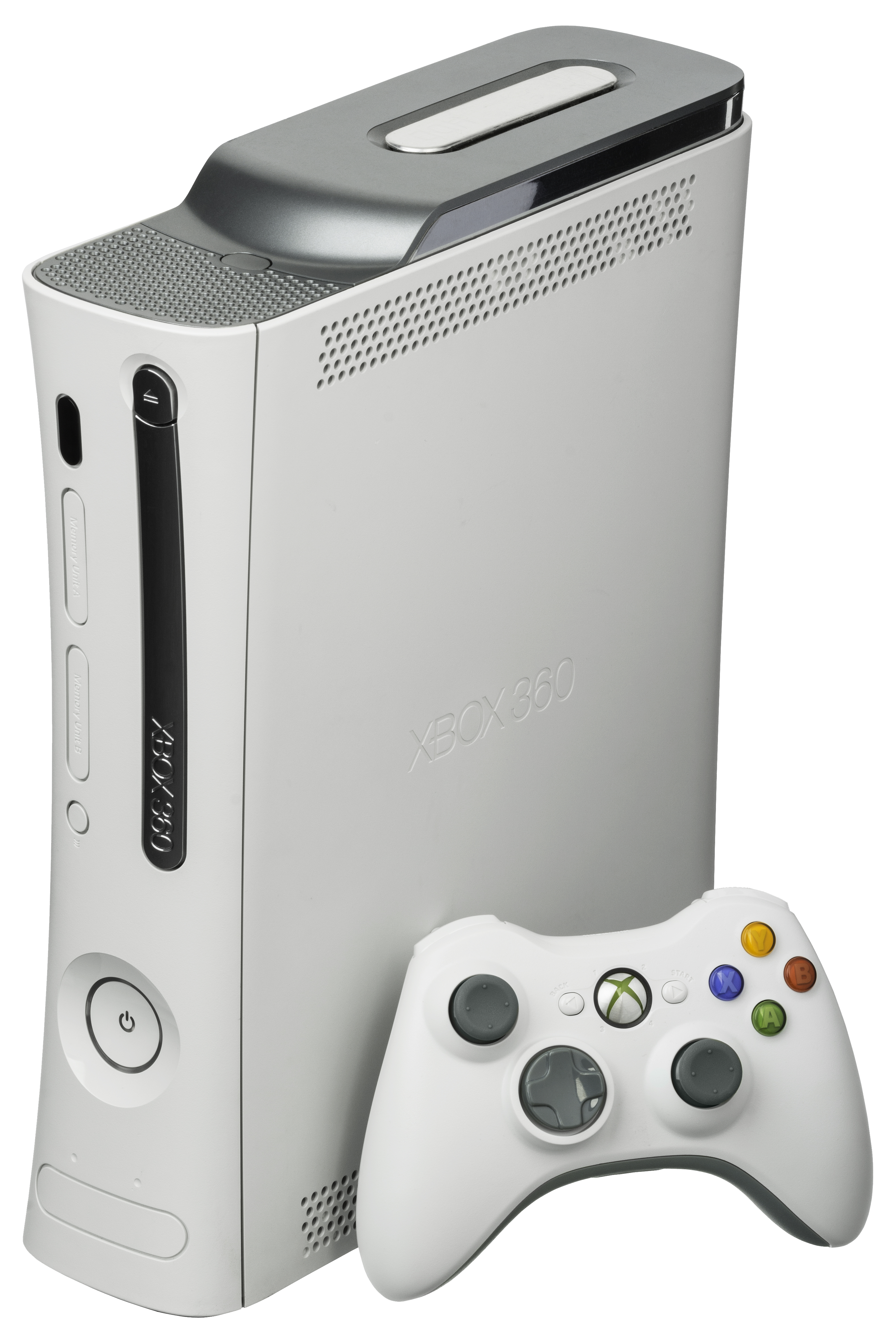 The Xbox 360, a video game console released by Microsoft in 2005. This is the "Pro" model from the launch line-up, which featured a 20GB hard drive, wireless controller and a silver DVD bezel. The production date of this unit is 2005-11-05, making it a very early unit. Of note is the gray on the hard drive at the top, which is very shiny and silvery. This was changed to a matte gray in later models.